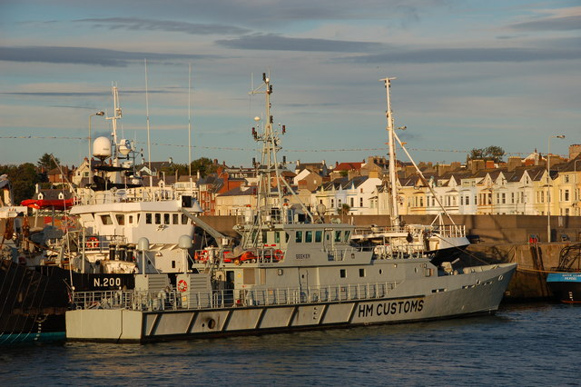 The Customs Cutter "Seeker" was named in 2001, the first of the then fleet of Damen 42-metre patrol vessels operated for the services known at that time as HM Customs and Excise (succeeded by HM Revenue and Customs and UK Border Agency)